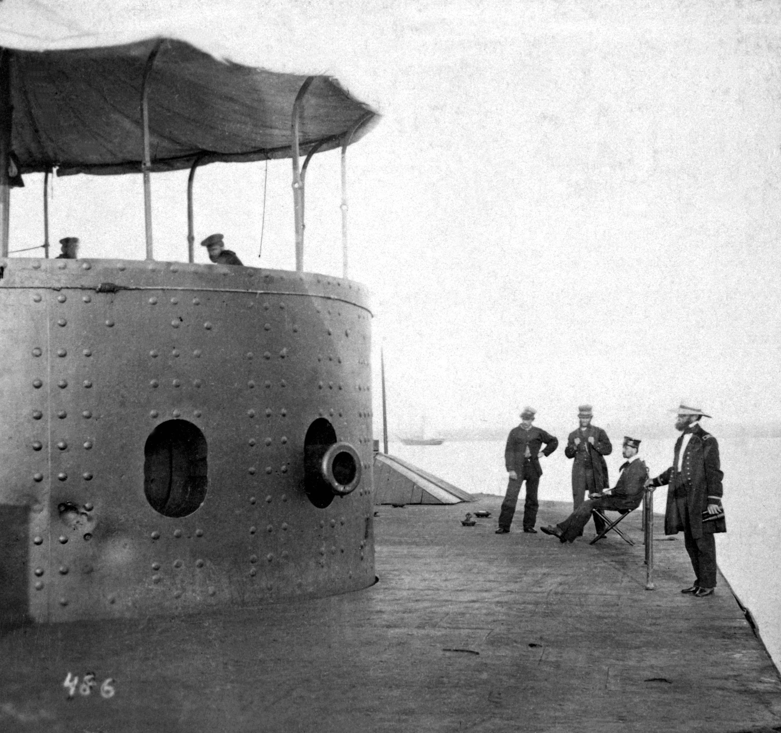 The Original Monitor after her Fight with the Merrimac. Near the port-hole can be seen the dents made by the heavy steel-pointed shot from the guns of the Merrimac. Hampton Roads, VA, July 1862. Stereo. (National Archives Gift Collection) Exact Date Shot Unknown NARA FILE #: 200-CC-486 WAR & CONFLICT BOOK #: 183 Location: HAMPTON ROADS, NORFOLK, VIRGINIA (VA) UNITED STATES OF AMERICA (USA)